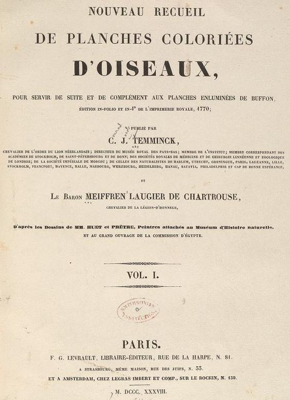 Title Page "Nouveau recueil de planches coloriées d'oiseaux: pour servir de suite et de complément aux planches enluminées de Buffon, Édition in-folio et in-4⁰ de l'Imprimerie royale, 1770."